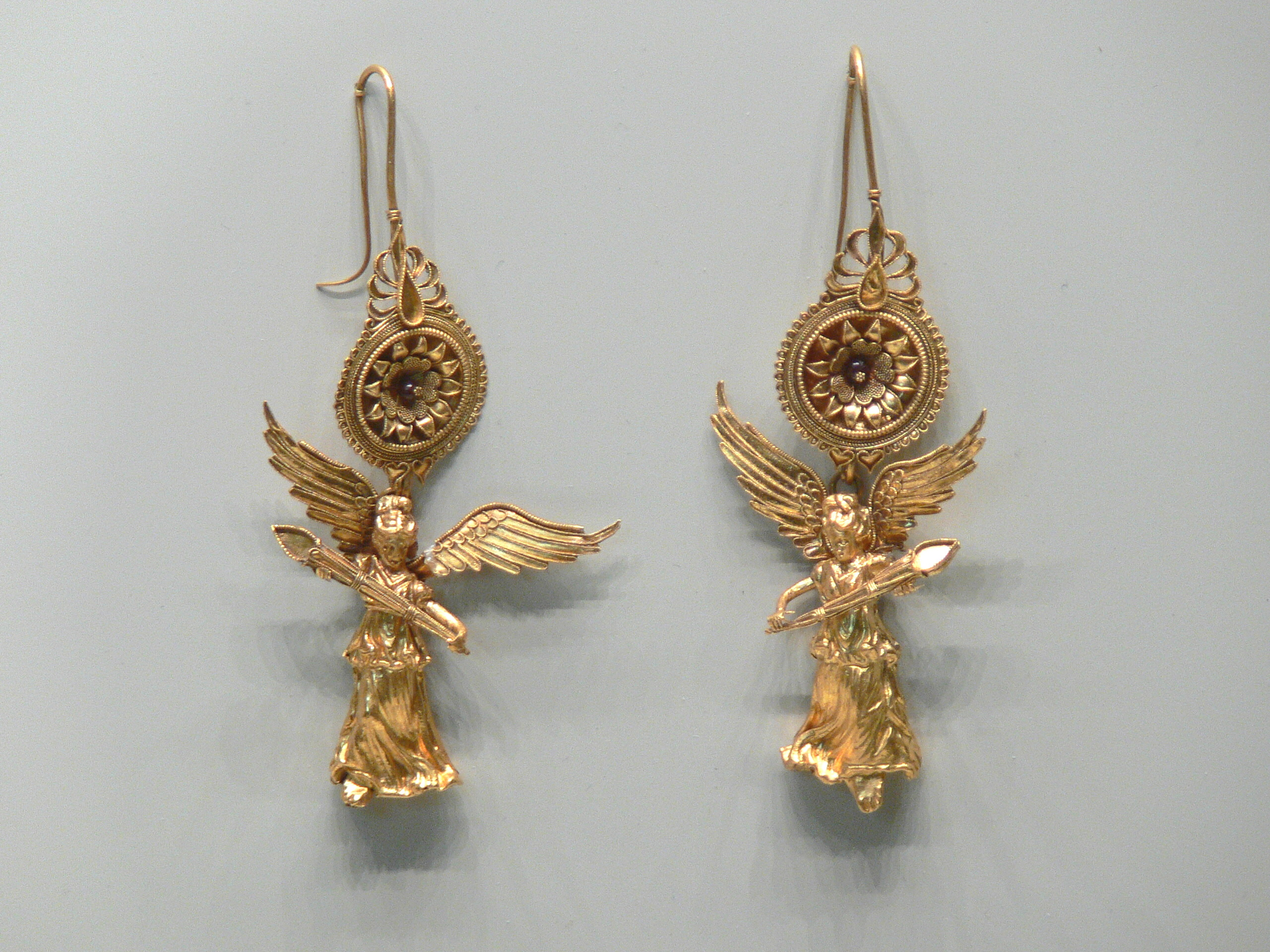 Ear rings with Eros pendants. Gold. Greek, probably made in Alexandria, Egypt, 220 - 100 B.C. The pieces probably belonged to a noble woman of the Ptolemaic dynasty in Egypt.